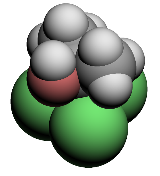 Molecular spacefill of Chlorobutanol